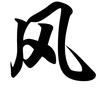 Feng (wind), Chinese character